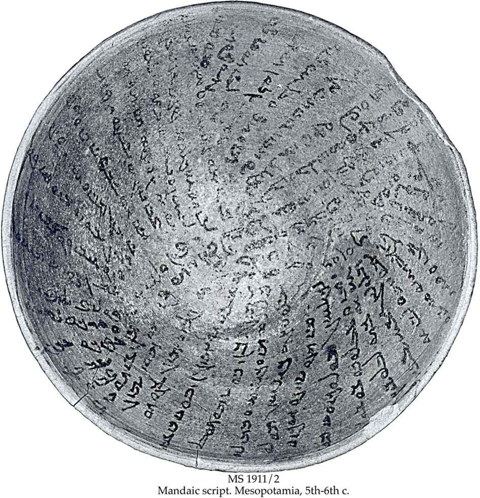 The Schøyen Collection MS 1911/2, Oslo and London. Mandaic script. Mesopotamia, 5th-6th c. A BINDING FOR THE HOUSE AND ABODE OF NANAI DAUGHTER OF IN - AND FOR IHANA SON OF SHISHA. - I AM FEROCIOUS WITH THE DEMONS BUZNAI SON OF MAHIA DIVIDES ... FINDS THE STINKING ONE OVERTURNED, OVERTURNED ... GOAT(?) FROM THE HOUSE OF GISHI ..., AND FROM THE DAUGHTERS AND SONS AND HE IS ENRAGED BY THE RAGE OF THE WOLF THAT IS FROM THE RAGE OF THE TOWN. ON THE CROWN THE STAND, THEY CAST A THRONE ON HIM, ALL THE ANGELS, I STAND AND I STRIKE(?) WITH THE EYE ALL THE ANGELS WHO STAND OVER MY GATE ... AND THE DEVILS SPEAK AND STAND TO DO EVIL MS in Mandaic on clay, Iran/Mesopotamia/Syria/Jordan, 5th-7th c., 1 incantation bowl, 19x7.5 cm, 44 lines in a careless cursive Mandaic script in 3 blocks at different angles radiating from the centre. Incantation or magical bowls are also called demon traps. They were placed with the bottom up under the floors and thresholds of the houses in the Near East. The demons were then believed to be trapped inside the bowl with the magical spells written against them.